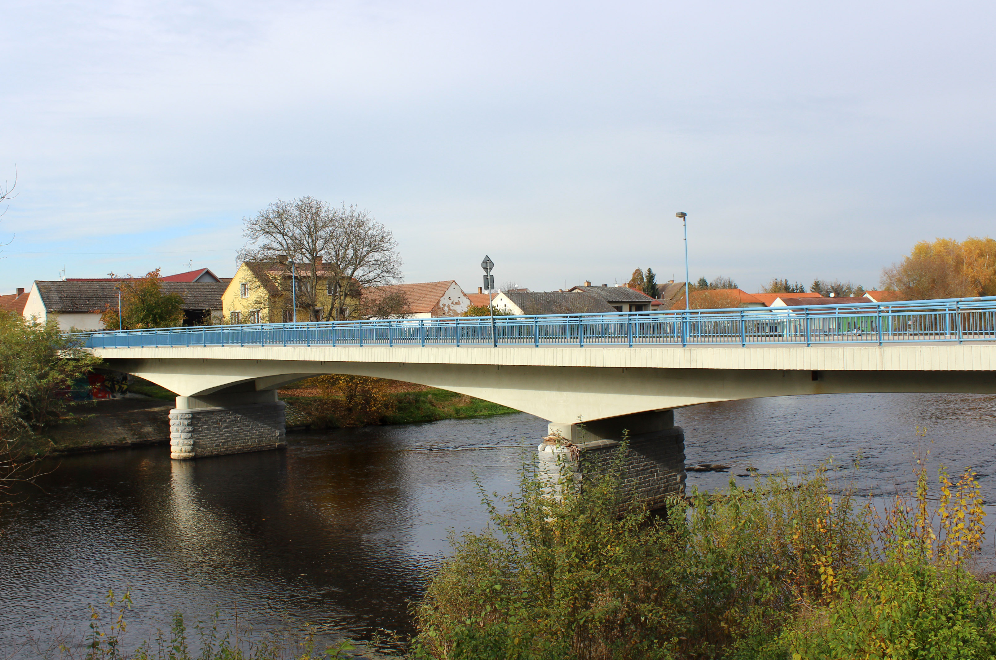 Bridge over Vltava river in Boršov nad Vltavou, Czech Republic.